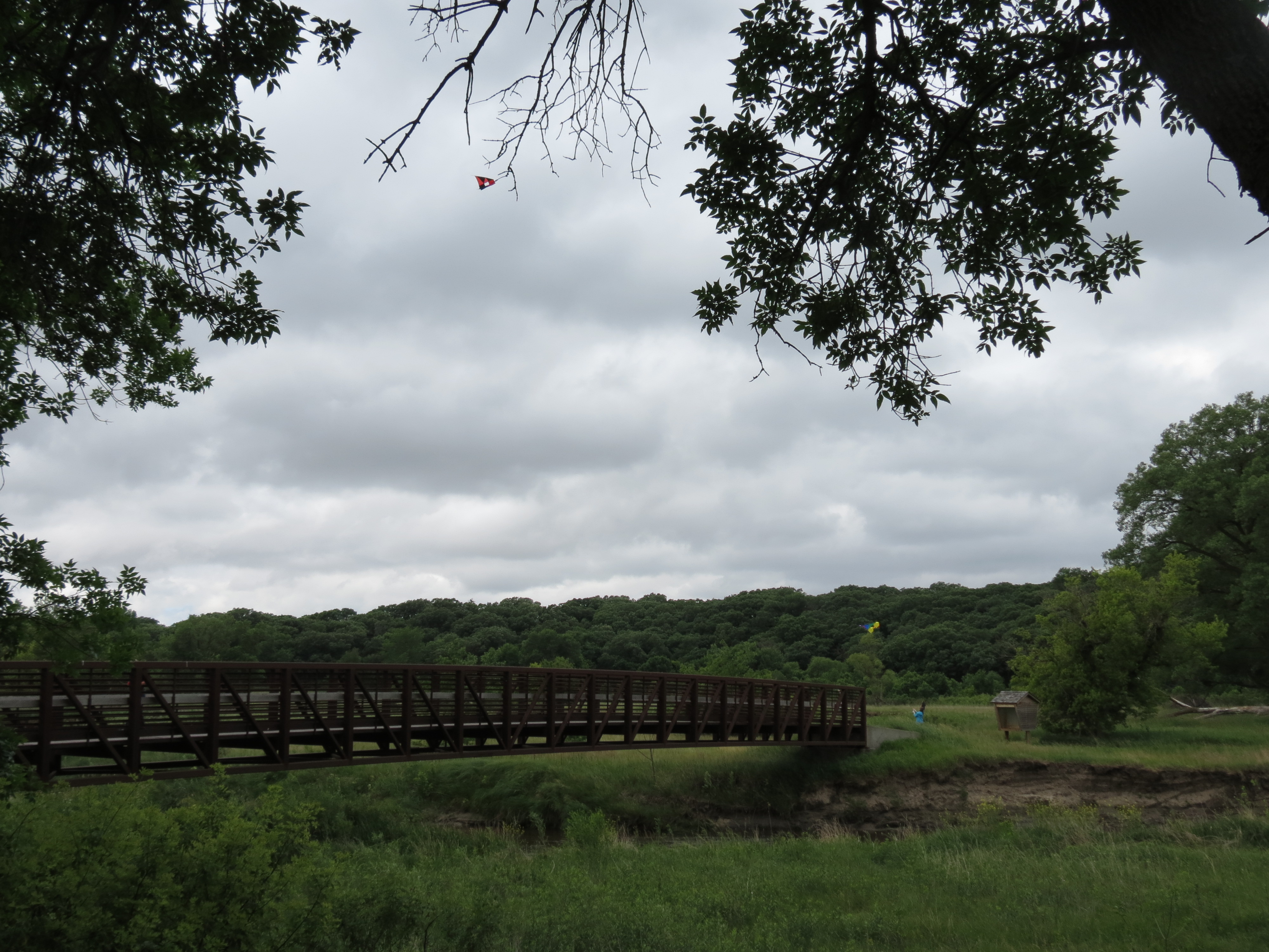 The bridge of Olson Nature Preserve grants visitors easy access to the Preserve on the other side of the Beaver Creek.